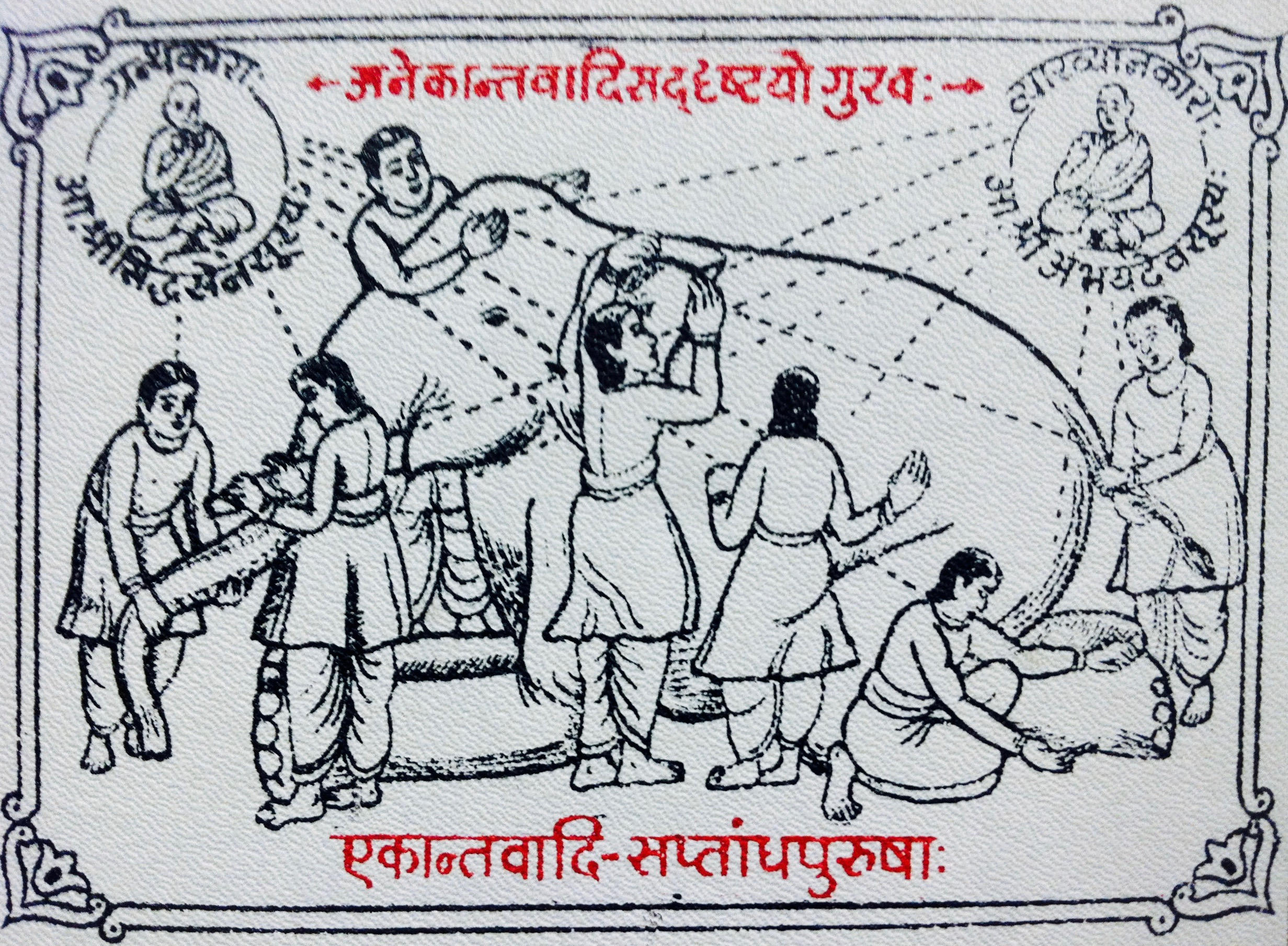 Seven blind men and an elephant is a parable found in Indian traditions. It is particularly used in Jainism to explain the doctrine of multi-sidedness (anekantavada) of Ultimate Reality, Absolute Truth. It is also called the theory of non-onesidedness, non-absolutism, manifoldness, many pointedness by scholars.